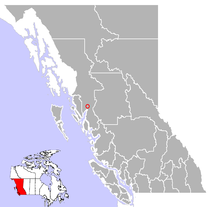 Kitimat, British Columbia location.